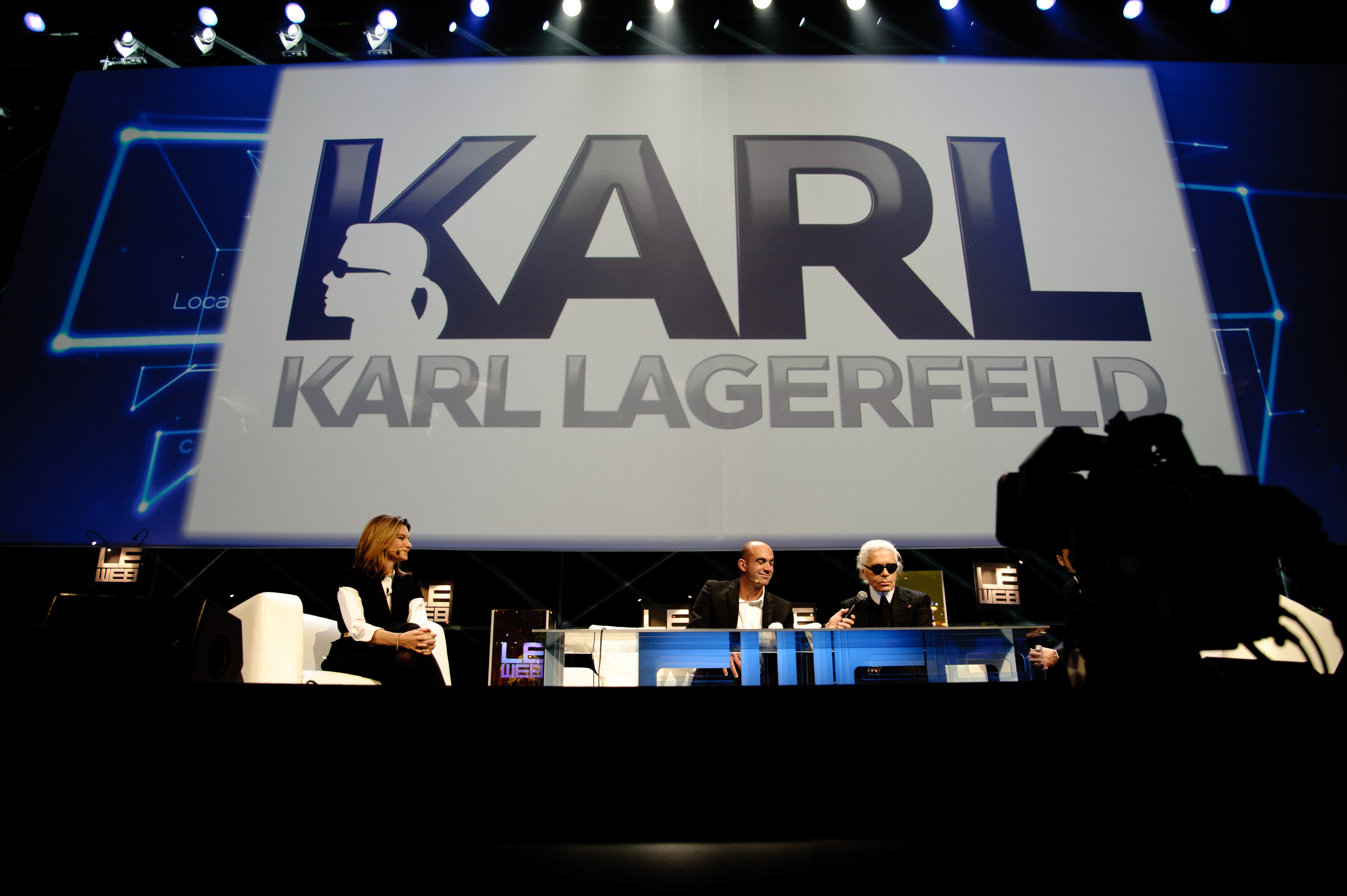 Photos by @jibees for LeWeb11 Conference @ Les Docks -Paris- Natalie Massenet, founder of Net-a-Porter